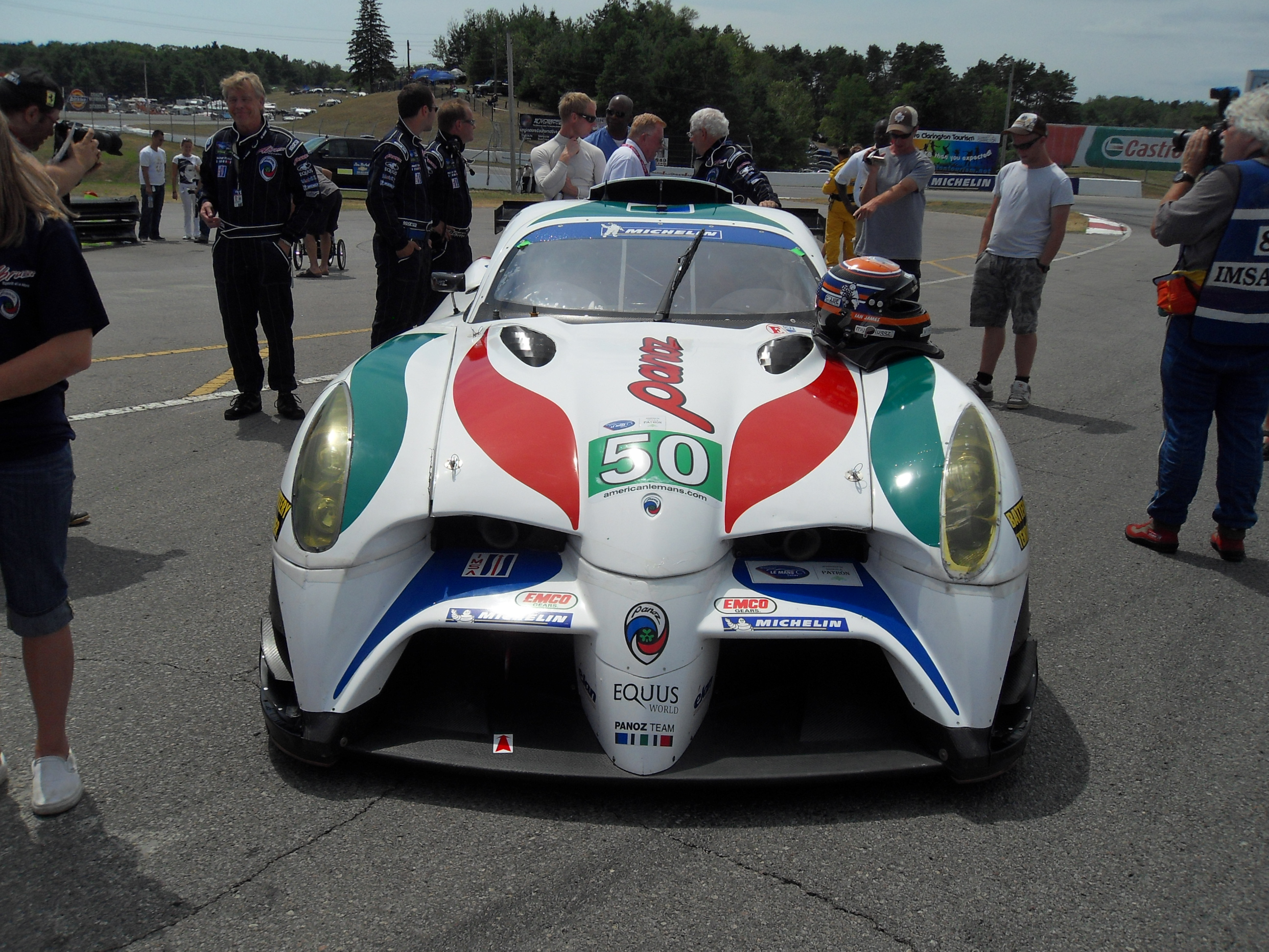 Repaired...on the grid